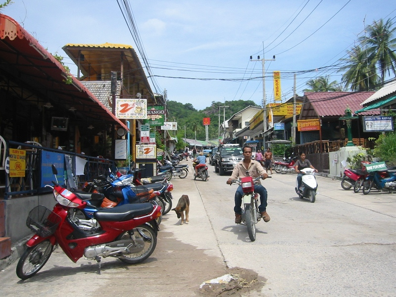 Ko Tao main street. Personal photograph. Released in the Public Domain.